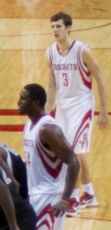 Chandler Parsons of the Houston Rockets attempts a free throw on March 26, 2012, in a game against the Sacramento Kings.